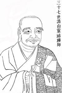 Portrait of chan master Guishan Lingyou